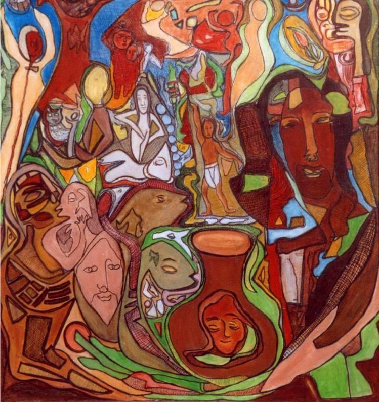 Psychosomatic whirlpool(acrylic on canvas,36”x40”):- The figures and objects have appeared spontaneously on the canvas,through my subconscious and has surfaced with its myriad kaleidoscopic text.